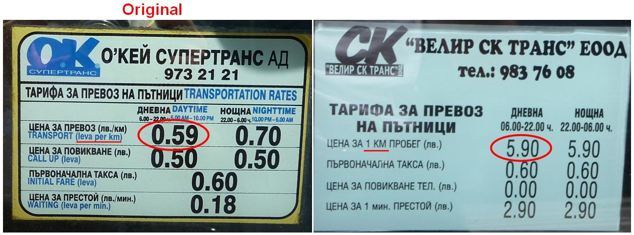 Different taxi companies at Sofia Airport with similar logos. Price difference: up to factor 10!